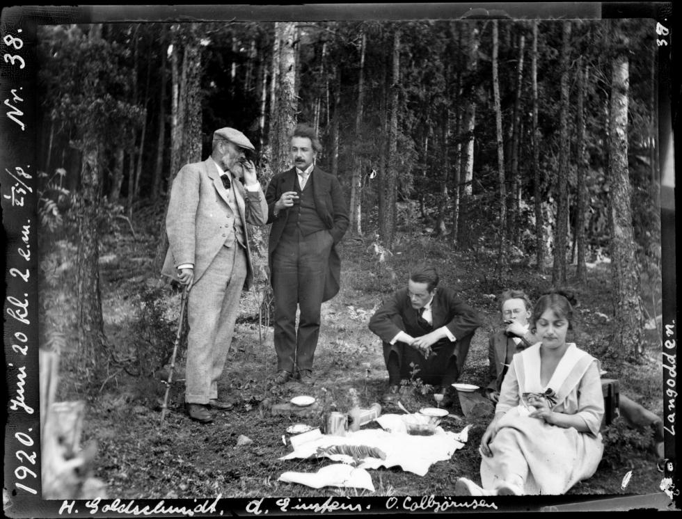 Einstein at a picnic near Oslofjorden in connection with his visit to Norway, June 1920